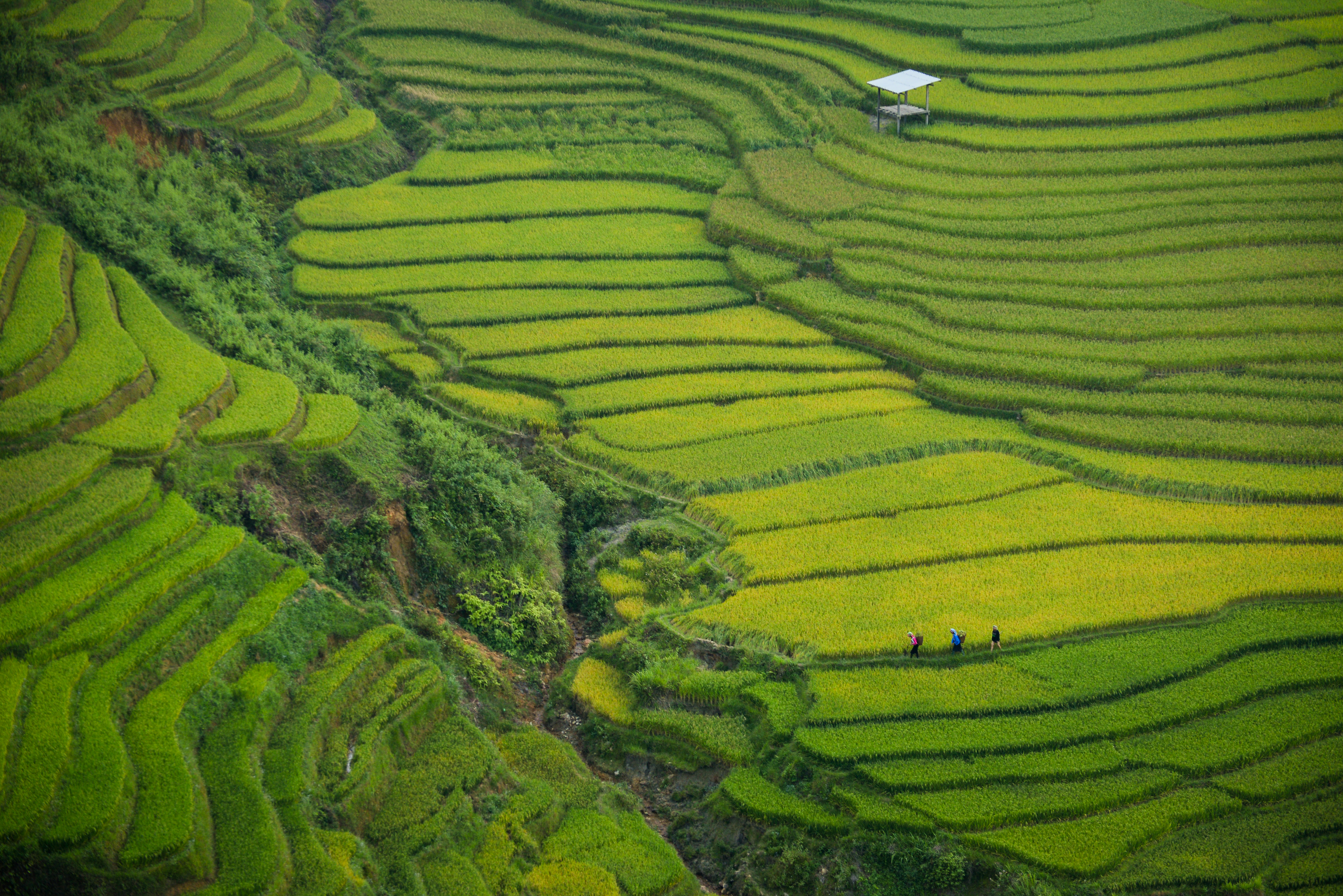 Khau Phạ Pass, Vietnam